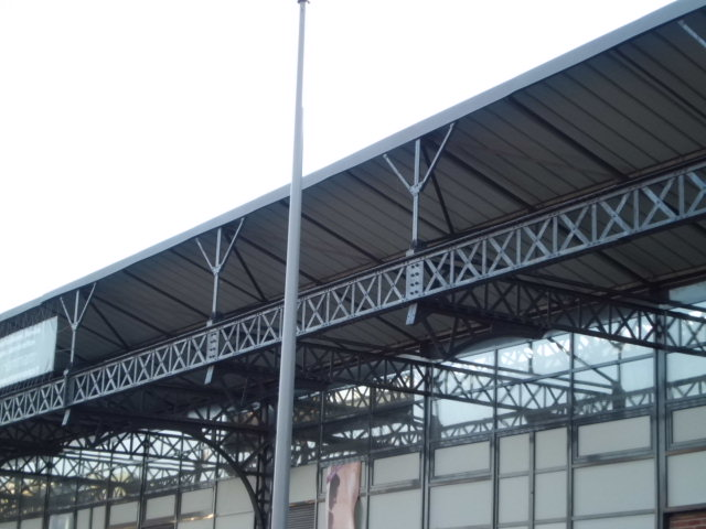 Metallic framework, warehouse A, Rouen Normandy